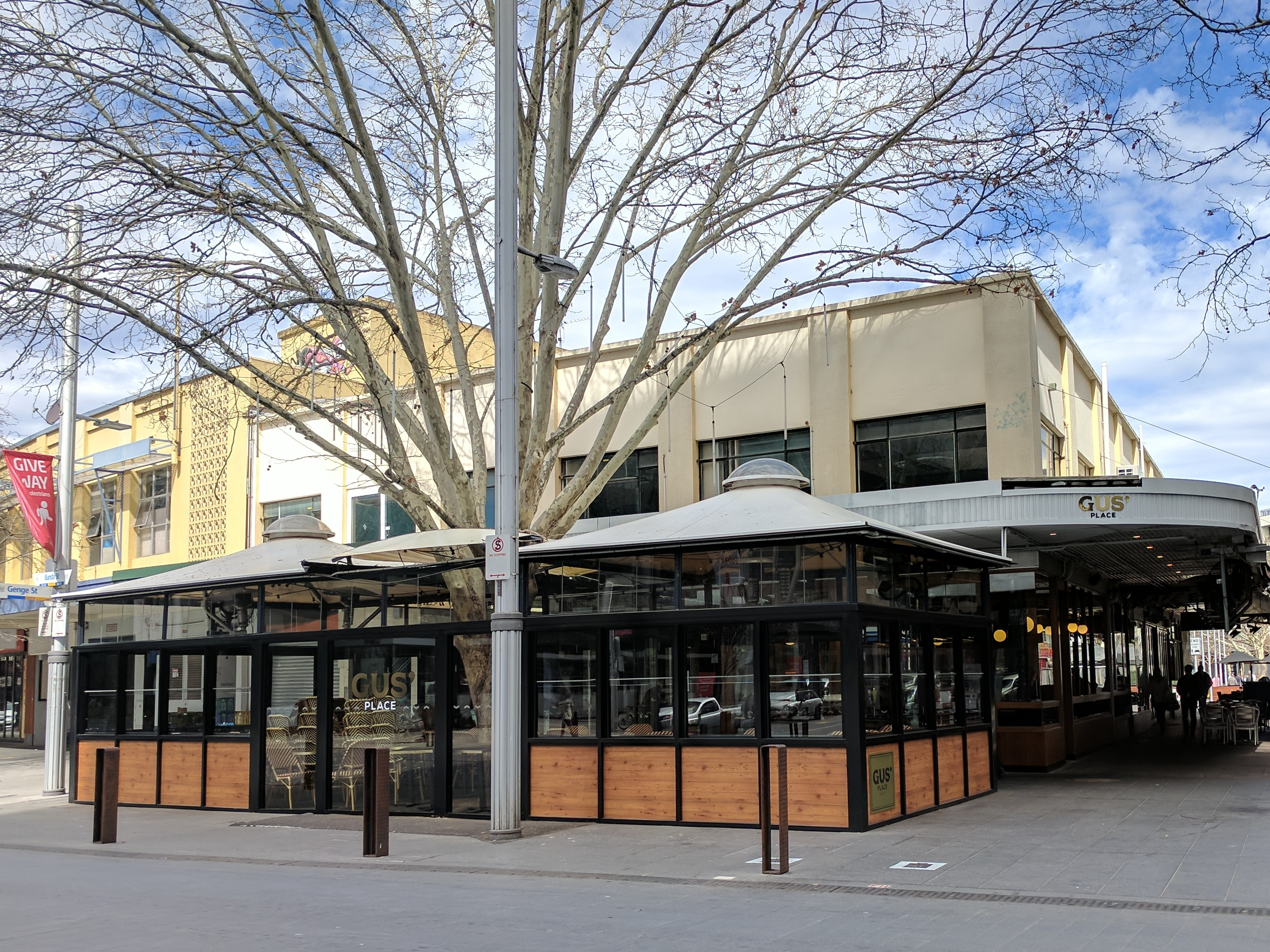 Gus' cafe the day before it reopened as Gus' Place